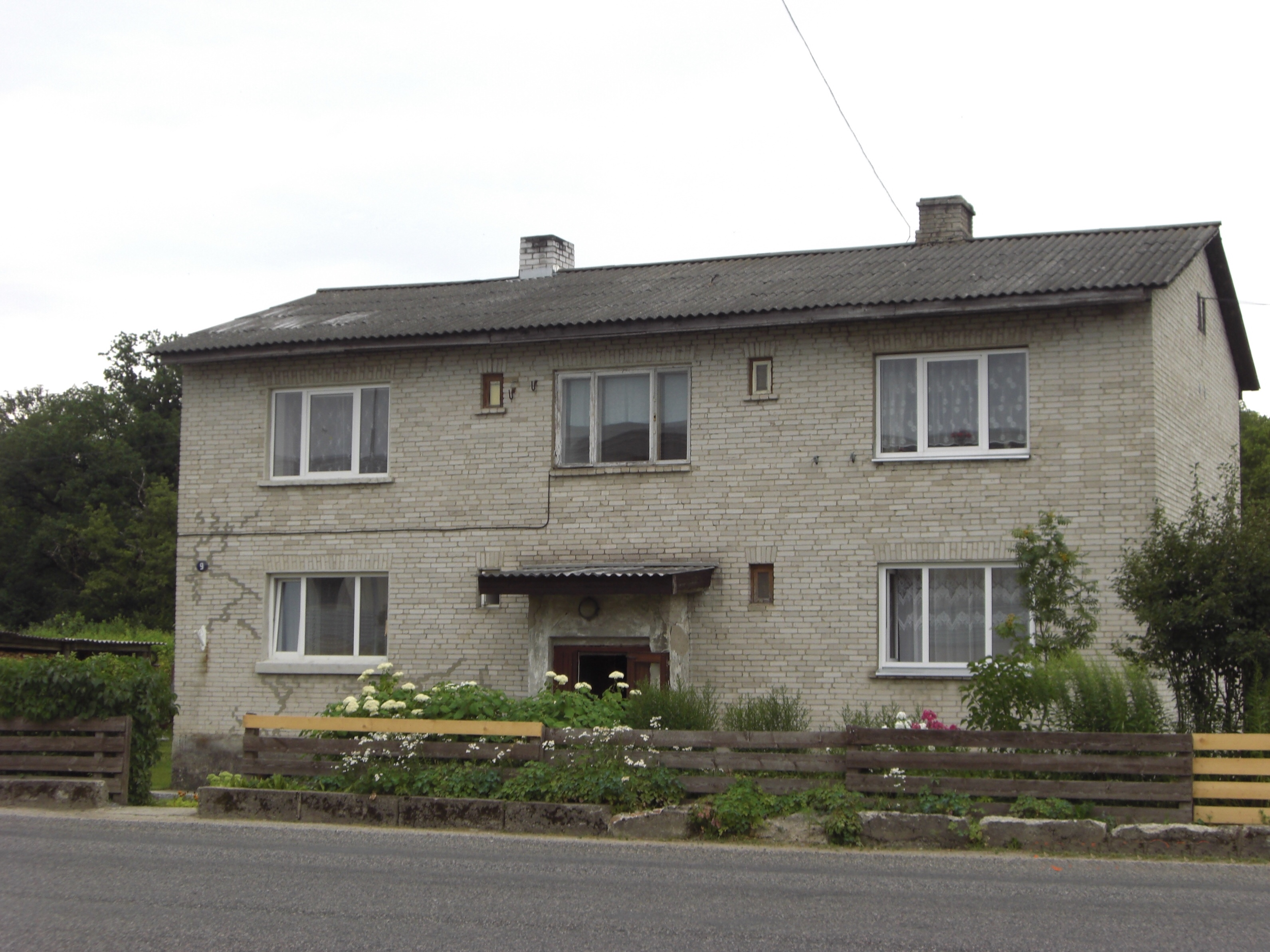 Vinni, Lääne-Viru County, Estonia